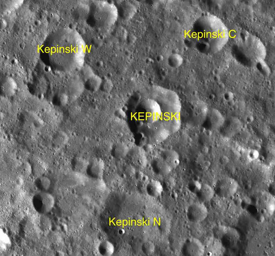 Part of the chart LAC-47 used for the presentation